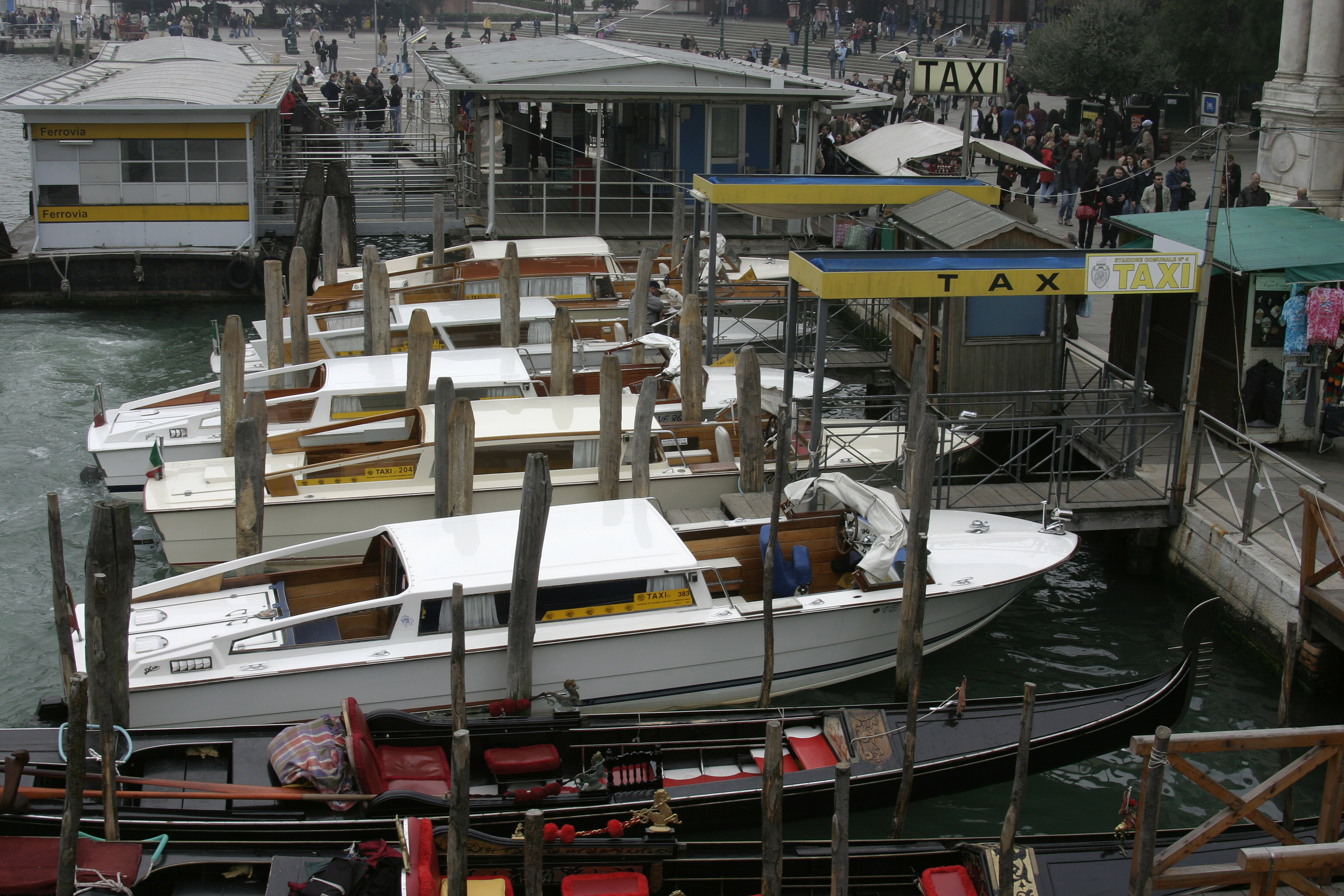 Taxis waiting for customers at railway station Venice